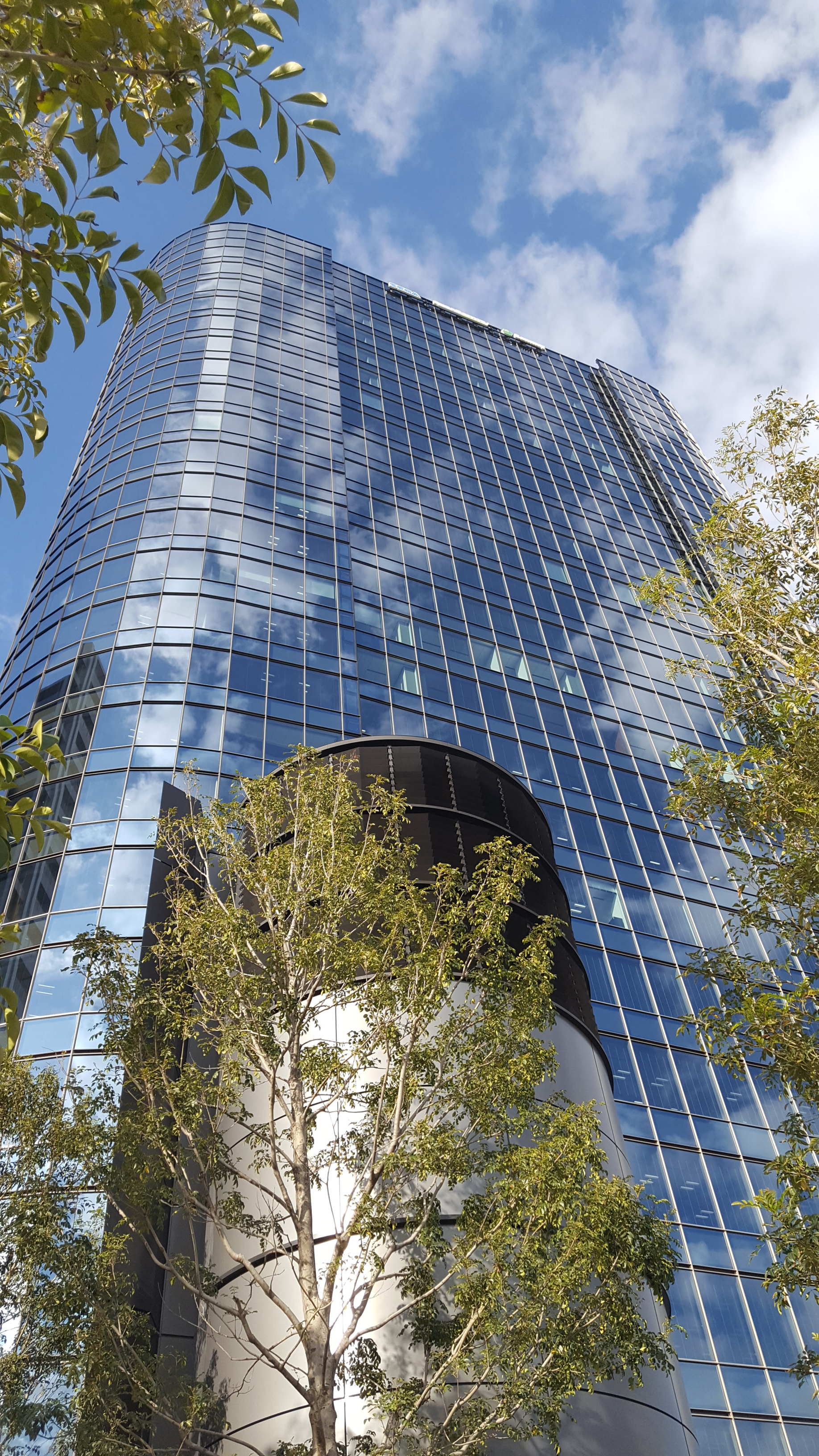 Sega's corporate headquarters as of 2018 at a shared corporate megacomplex building. Sega is one of several companies that have offices in this building. The building name is 住友不動産大崎ガーデンタワー . The address is 東京都品川区西品川一丁目1番1号.